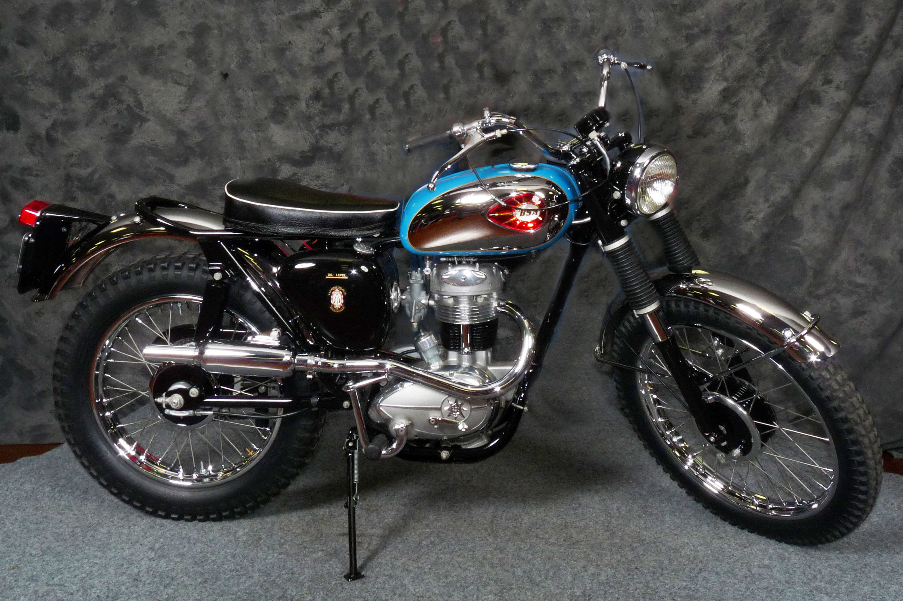 A 1961 BSA C15T trials machine